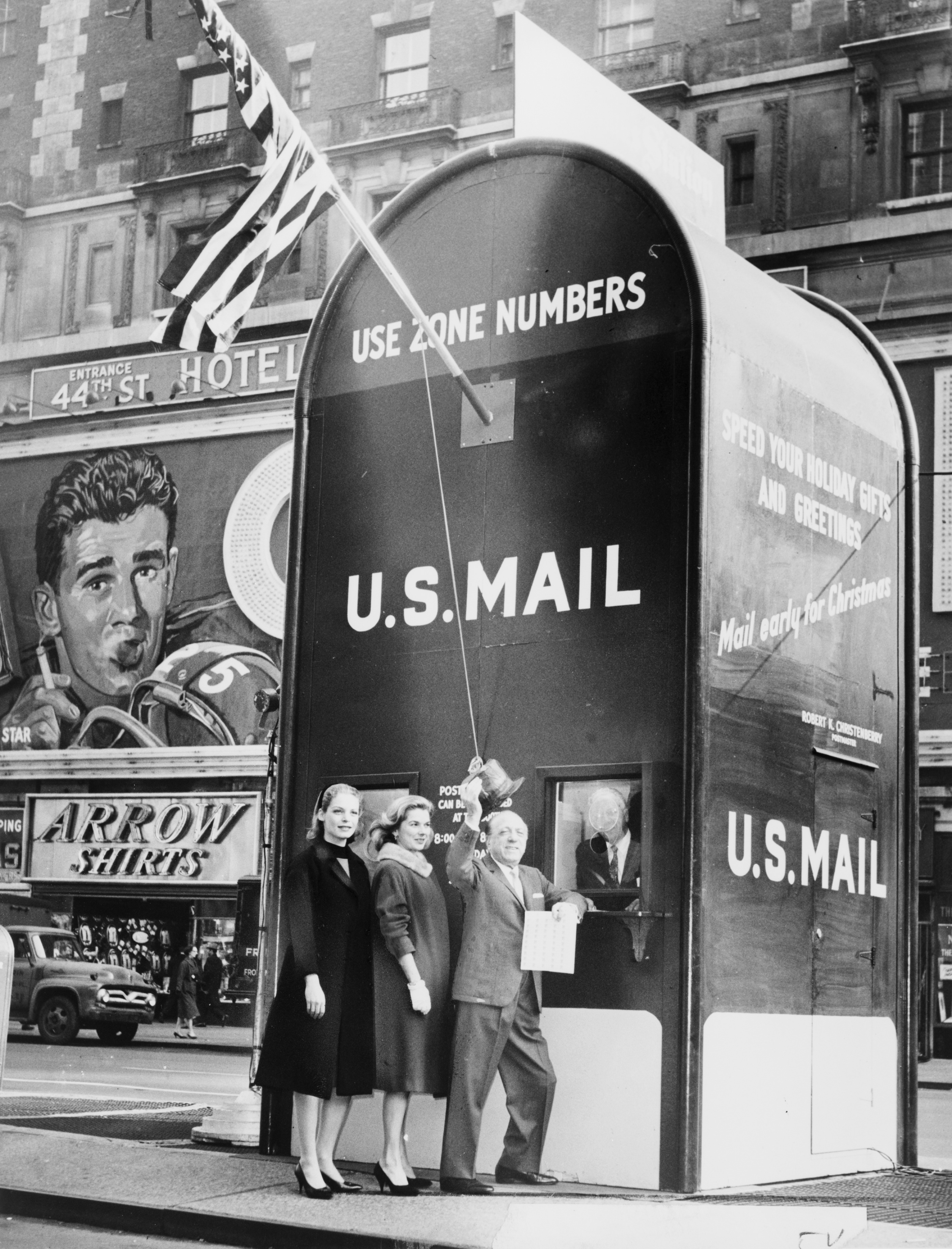 Actresses Millette Alexander and Louise King, and nightclub entertainer Ted Lewis, stand outside a giant mailbox stamp selling booth in Times Square, New York City, while Assistant Postmaster Aquiline F. Weierich dispenses stamps from inside booth / World Telegram & Sun photo by Phyllis Twachtman. The mailbox includes an injunction to use Zone numbers (the precursor to Zip codes in large cities). The famous Camel puffing billboard (1942 to 1966) is in the background.